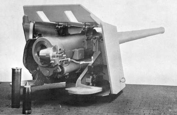 Photograph of Elswick Ordnance Company QF 6 inch naval gun. Cartridge case and shell are seen at left. Note : This shows an early long cartridge case for gunpowder propellant; later cases for cordite propellant were much shorter.